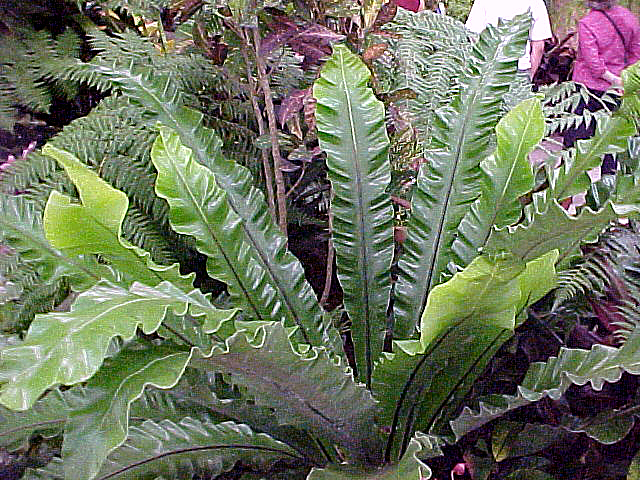 I shot this picture on a nature trip.